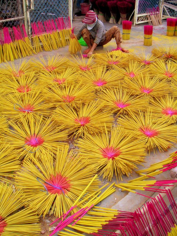 Incense drying in the Mekong delta.